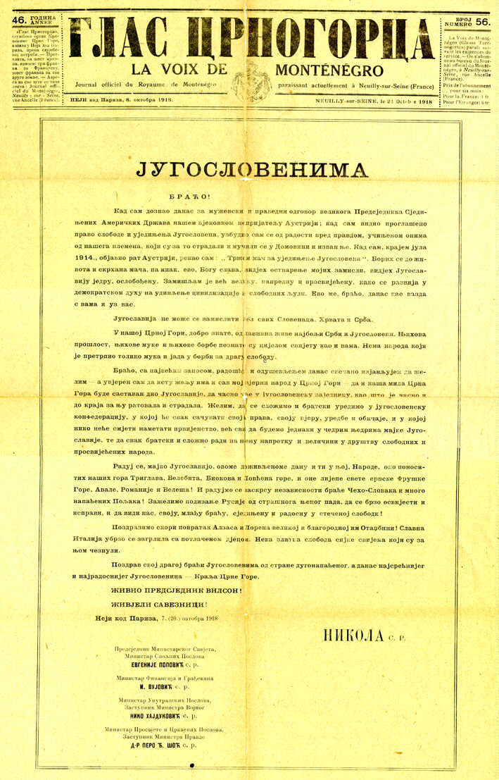 King Nikola’s Proclamation, on the occasion of the Unification, 1918, poster (33x51)